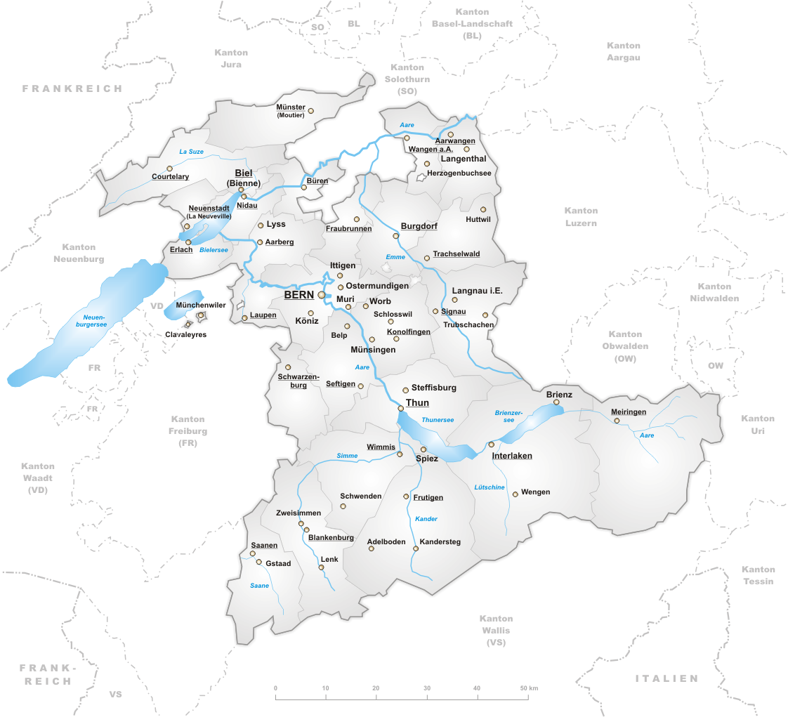 Summary